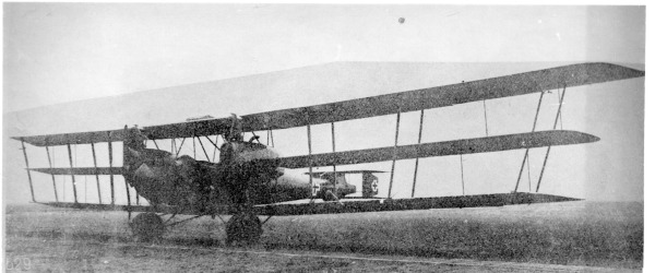 PictionID:43639813 - Catalog:16_004700 - Title:LVG (Luftverkehrsgesellschaft m.b.H. ) G III Nowarra photo - Filename:16_004700.TIF - - - - - - - Image from the Ray Wagner Collection. Ray Wagner was Archivist at the San Diego Air and Space Museum for several years and is an author of several books on aviation --- ---Please Tag these images so that the information can be permanently stored with the digital file.---Repository: San Diego Air and Space Museum